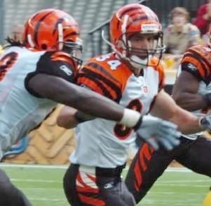 Three Cincinnati Bengals defenders (including Kevin Kaevisharn in center) pursue Pittsbu.gh Steelers running back Willie Parker